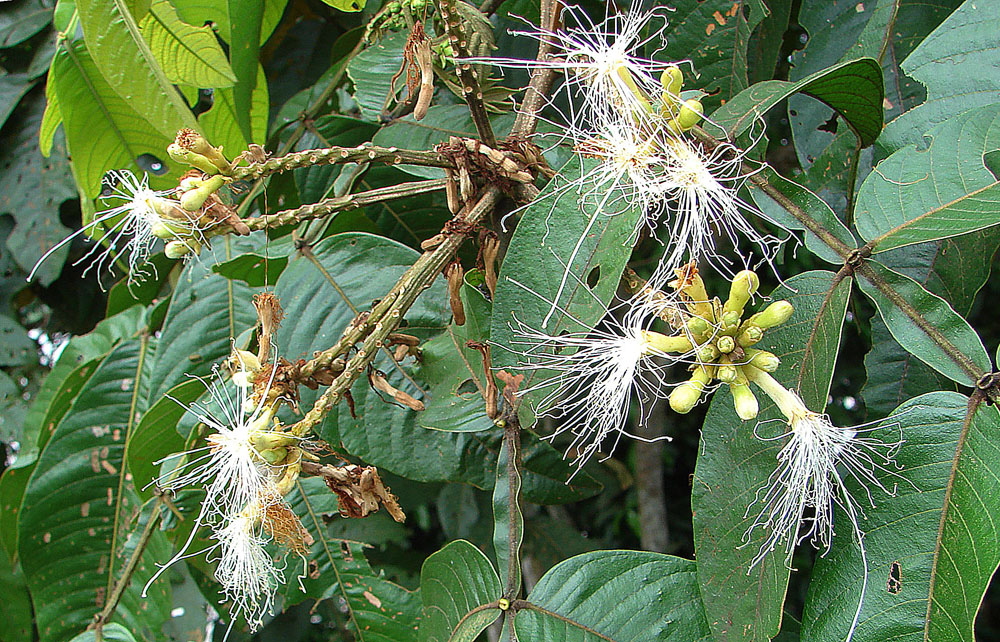 Native to the northwestern Amazon basin where it is known as Guama. Now widely planted. Photo from the Colombian Amazon. In context at